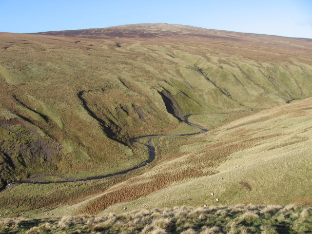 Across Fin Glen and Craigbarnet Muir to Earl's Seat